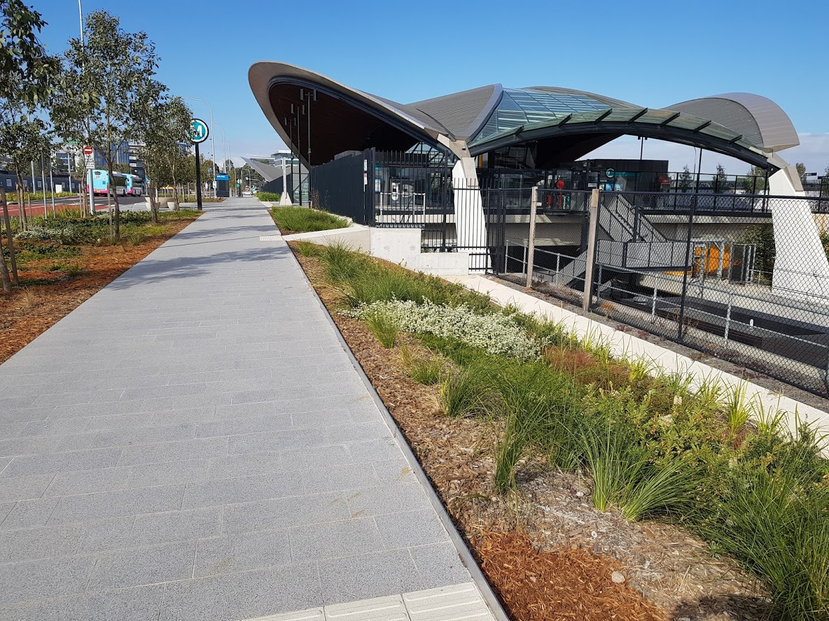 Bella vista railway station